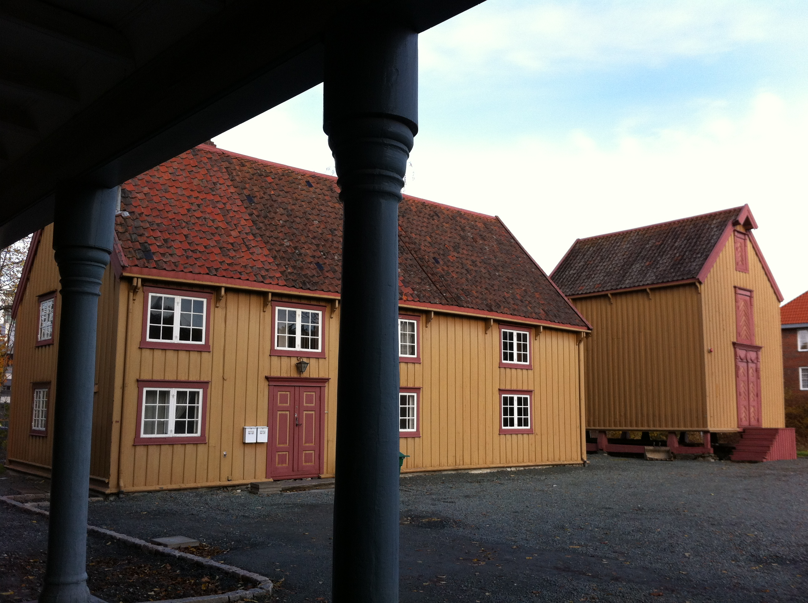 Lerchendal gård (=manor), Trondheim, Norway. View from the loggia of the main building (1762). The building to the left probably servants quarters from the same period. The other one is a "stabbur", traditional Norwegian storehouse (on pillars) from around 1800.